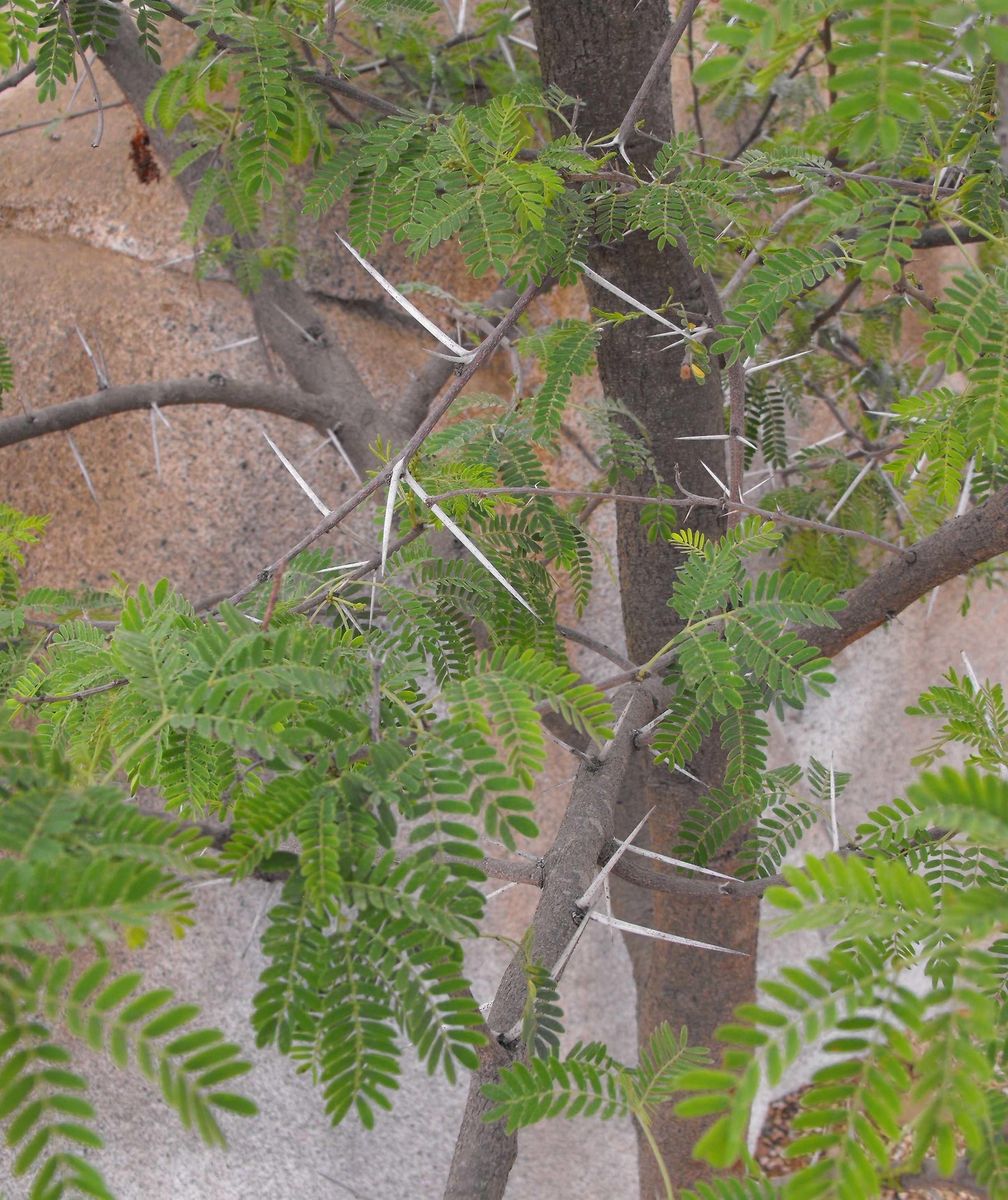 Acacia karroo — at the San Diego Zoo, California, USA. Identified by sign.